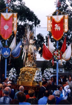 Our Lady of Victories on procession during the Maltese Festa of Greystanes.